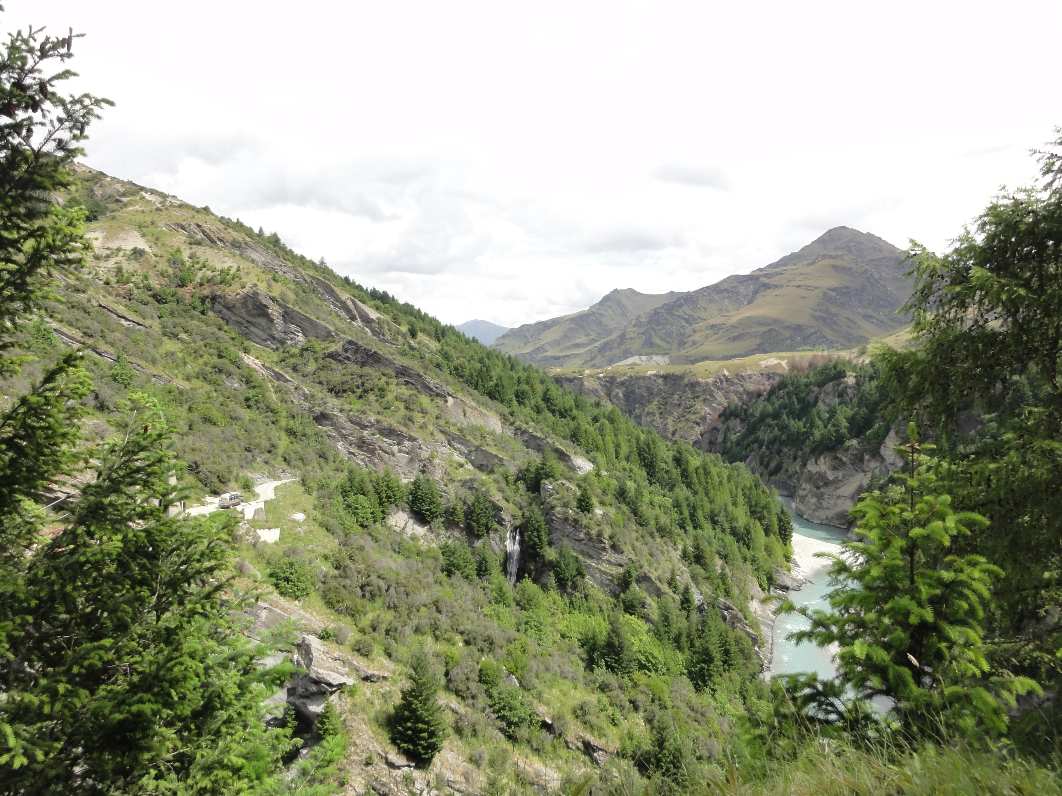 Skippers Canyon and Shootover River as seen from Road near Skippers. Skippers Bridge is invisible at the left